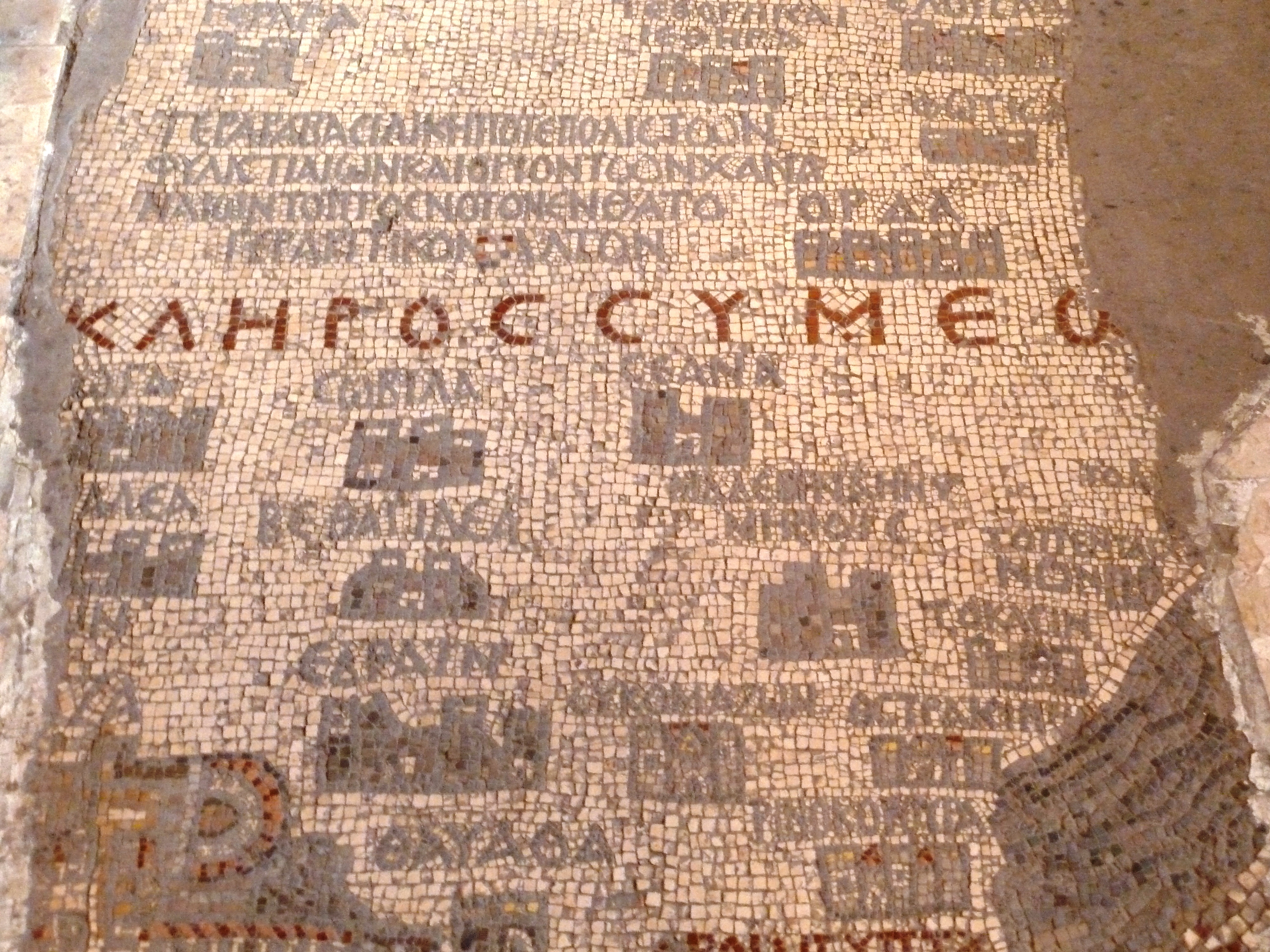 Byzantine floor mosaic map at St. George Church, Madaba, Jordan